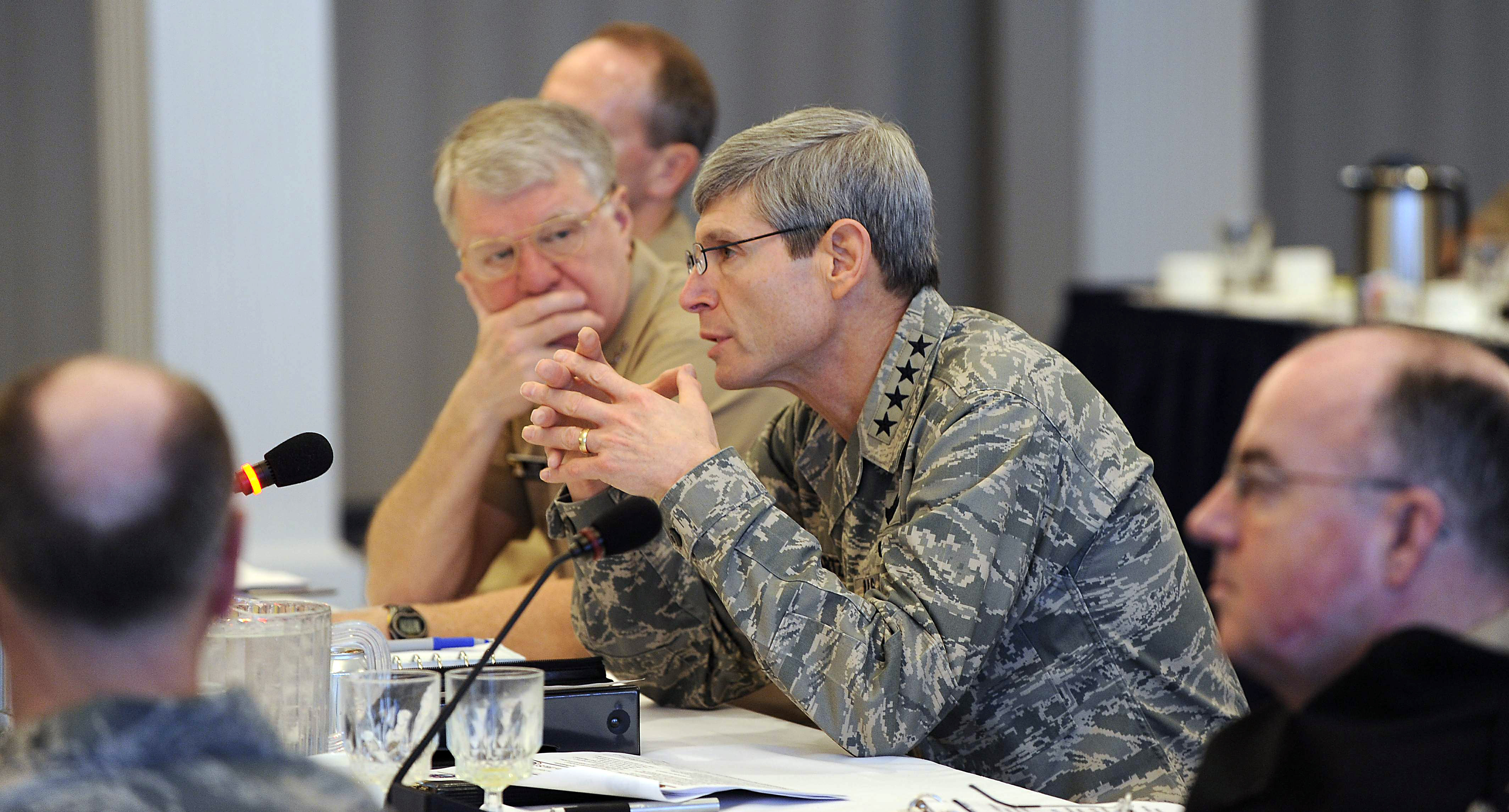 Air Force Chief of Staff General Norton Schwartz weighs-in on one of the Navy-Air Force Warfighter Talk discussions Mar. 18 at Bolling AFB, D.C. while Chief of Naval Operations Adm Gary Roughead listens. The Air Force hosted this year’s cross-talk event, bringing the two services together to discuss issues affecting current and future operations. (U.S. Air Force photo/Scott Ash)